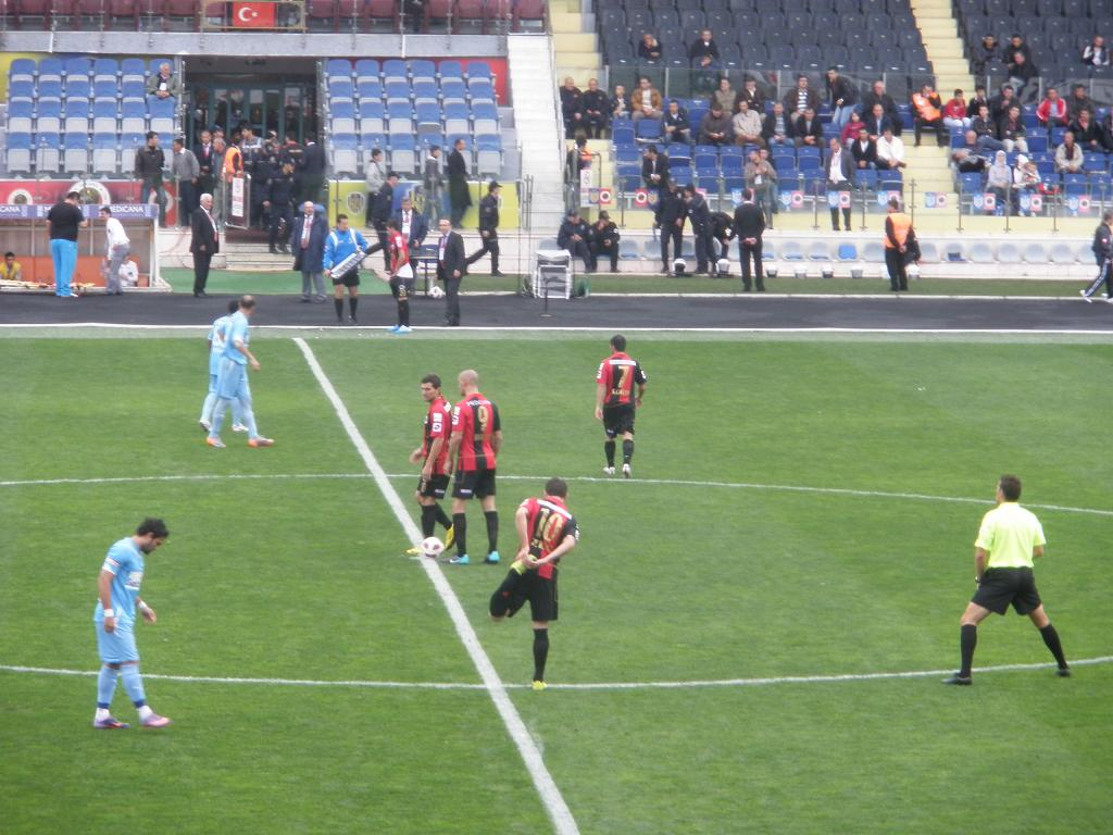 Turkish Süper Lig Gençlerbirliği 2-3 Antalyaspor match